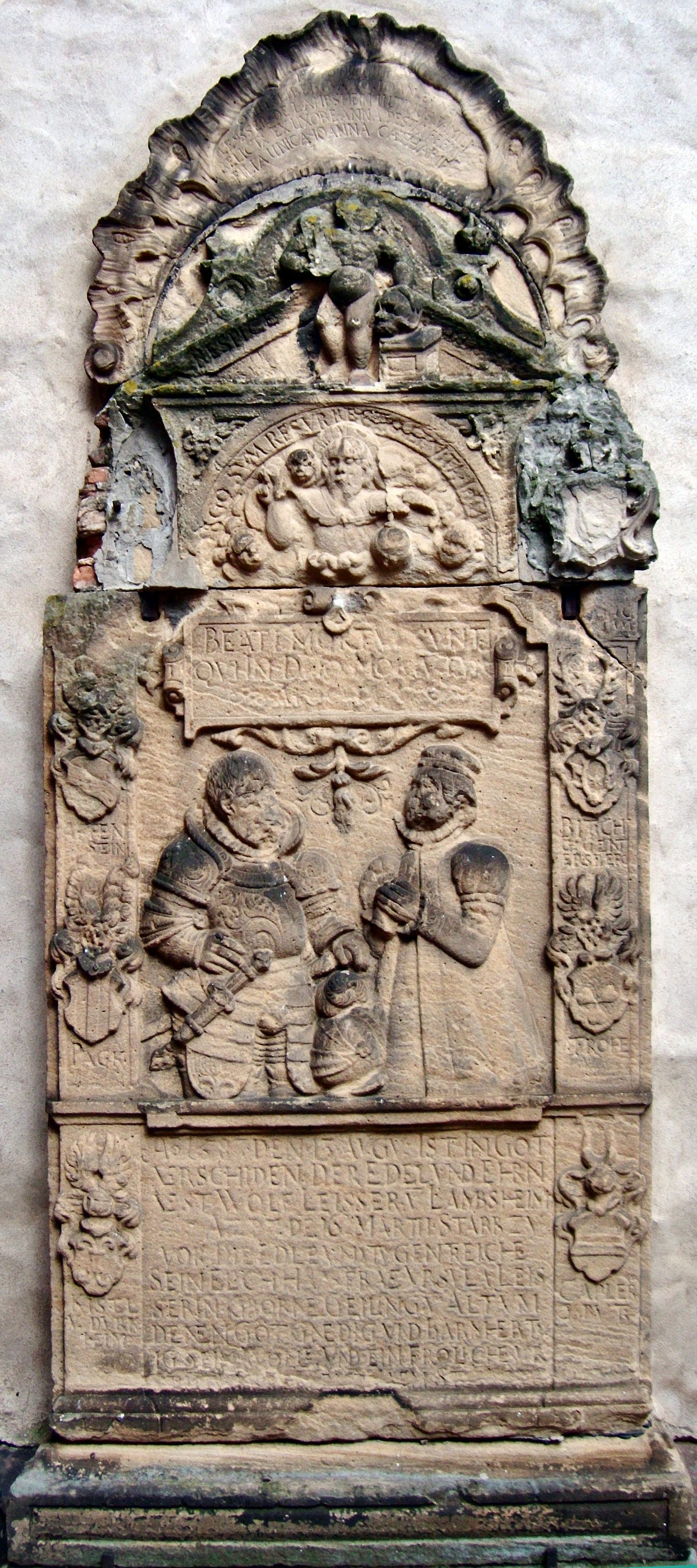 Epitaph Wolf Leyser von Lambsheim (1547–1587), St. Ulrich Deidesheim